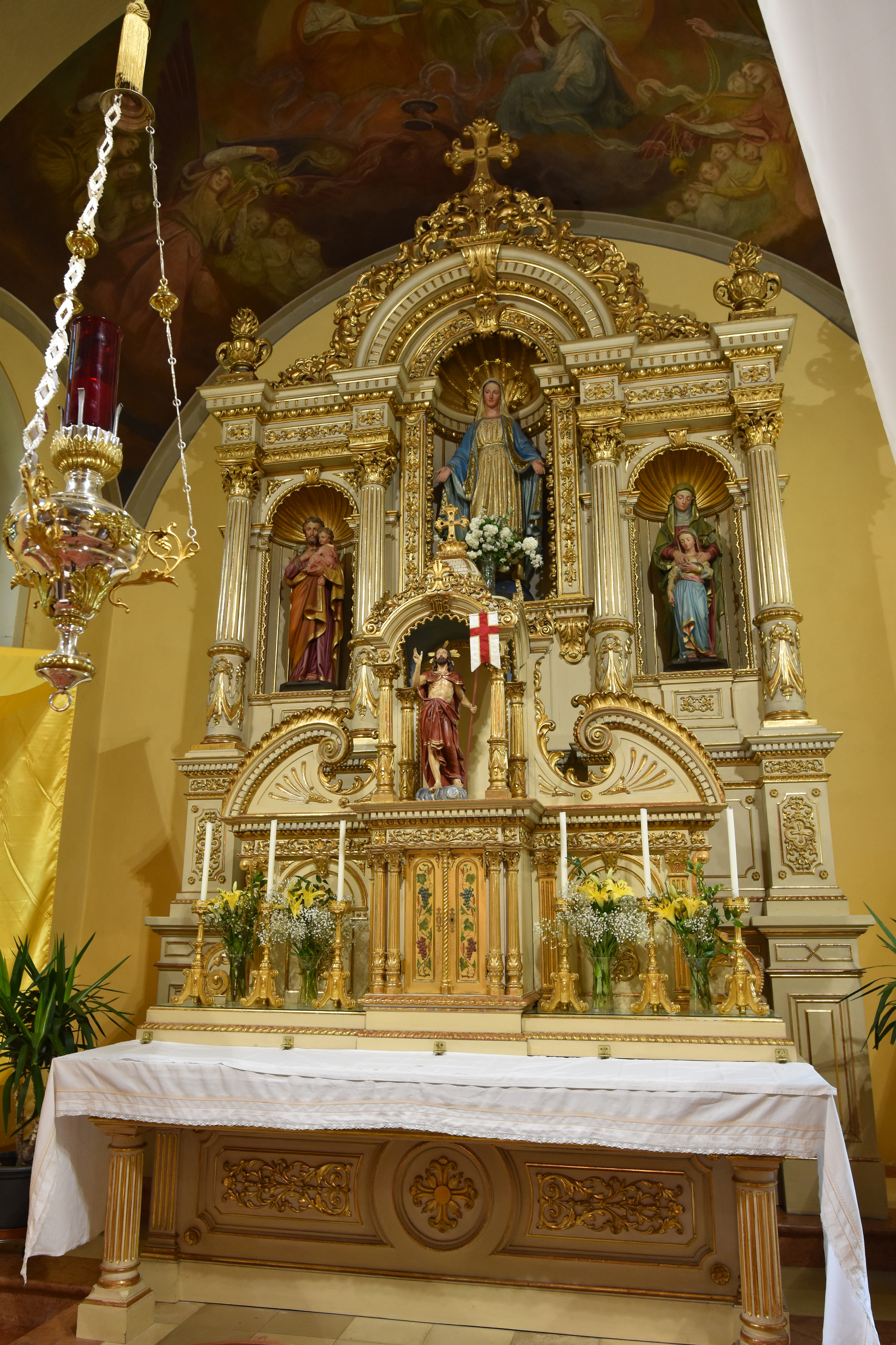 Church Unbefleckte Empfängnis (Deutsch Goritz) - Interior